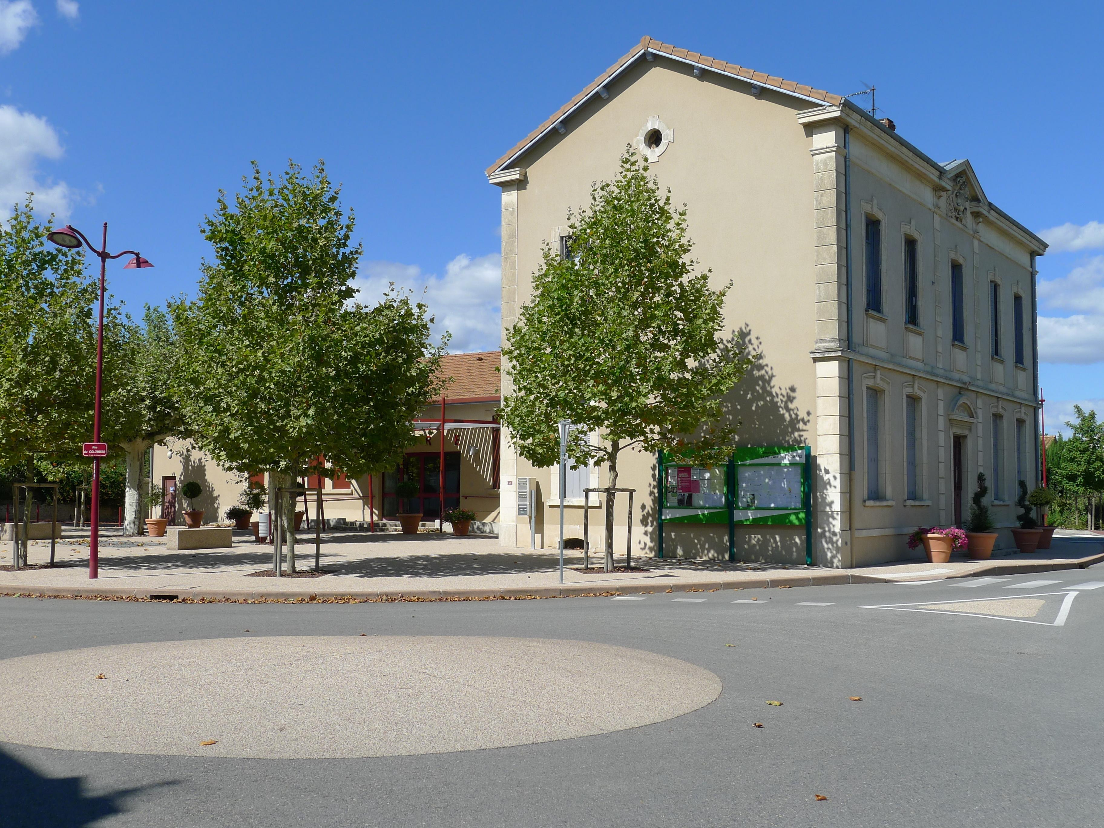 Town hall of Saint-Paul-lès-Romans - Drôme - France